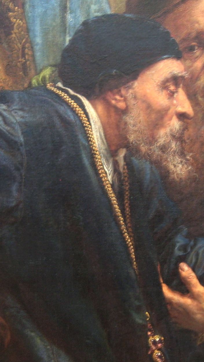 Walerian Protasewicz bishop of Vilnius